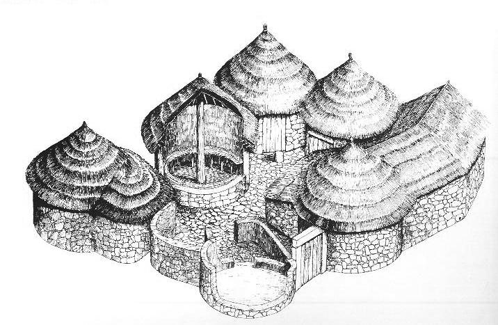 Family Setting of Cividade de Terroso